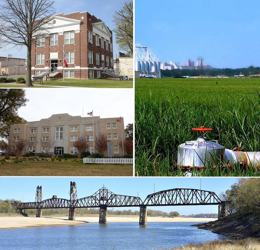 Collage of Arkansas County, Arkansas. Clockwise from top: A rice field outside Stuttgart, the Yankopin Bridge over the Arkansas River, the Southern District courthouse in DeWitt, and the Northern District courthouse in Stuttgart. File:Stuttgart AR distance.jpg Ngythanh File:Yancopin Bridge.jpg Richard apple File:Arkansas County Courthouse-Southern District.jpg Valis55 File:Arkansas County Courthouse-Northern District.JPG Valis55